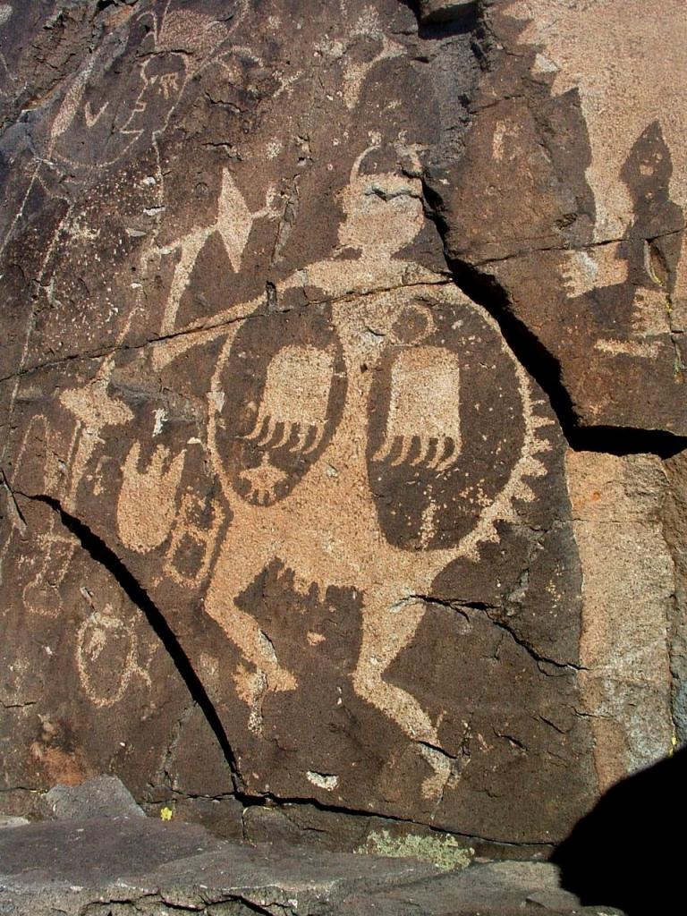 Comanche Gap Shield Warrior. These two shield figures are among my favorite petroglyphs. They are on a large volcanic dike on a private ranch in the Galisteo Basin. I went on one of the rare tours there in 2004. Polly Schaafsma suggests they represent war among the peoples of the area.